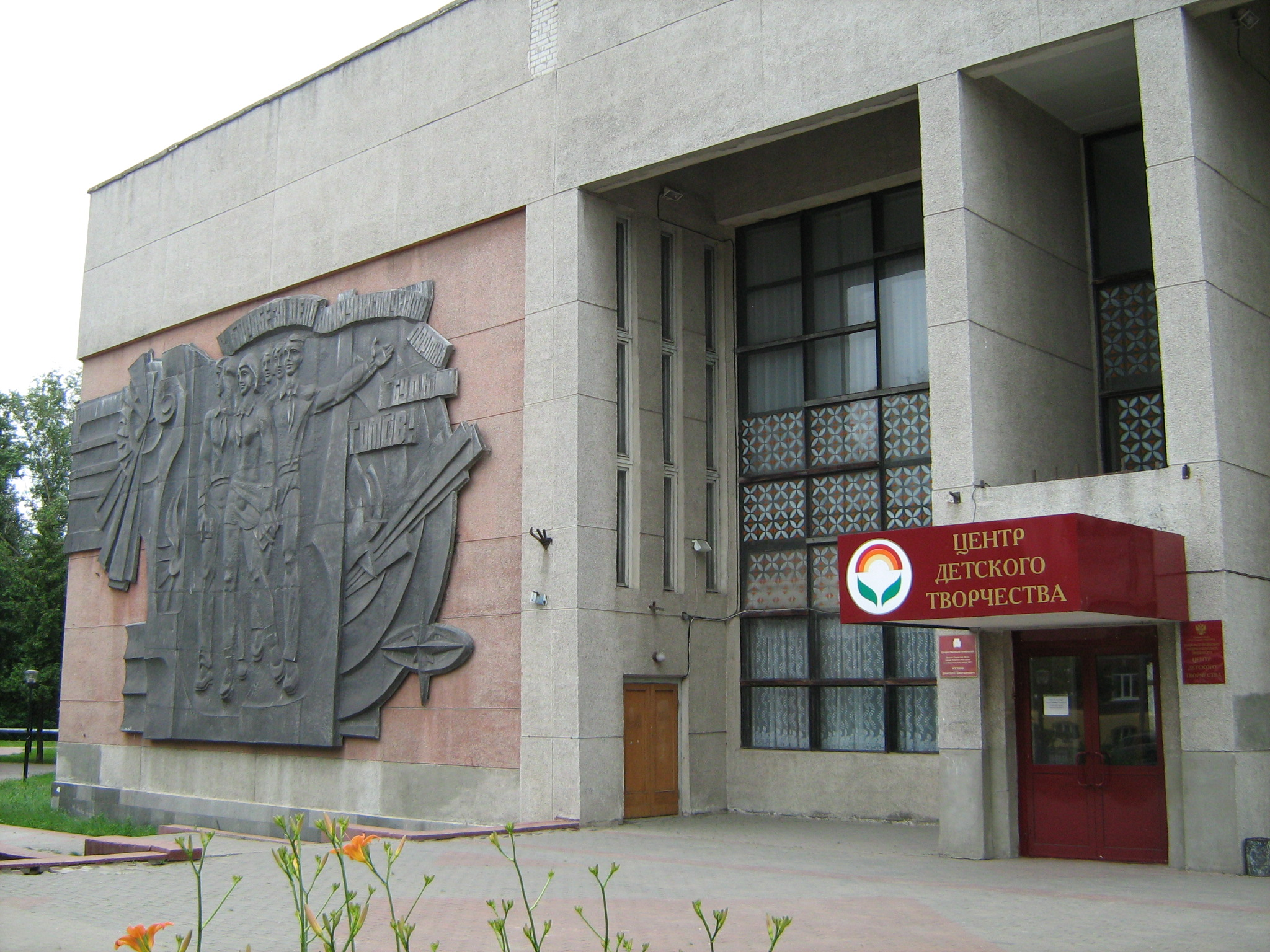 Pioneer's Palace (now, Children's Creative Activity Center) in Komintern St in central Sormovo